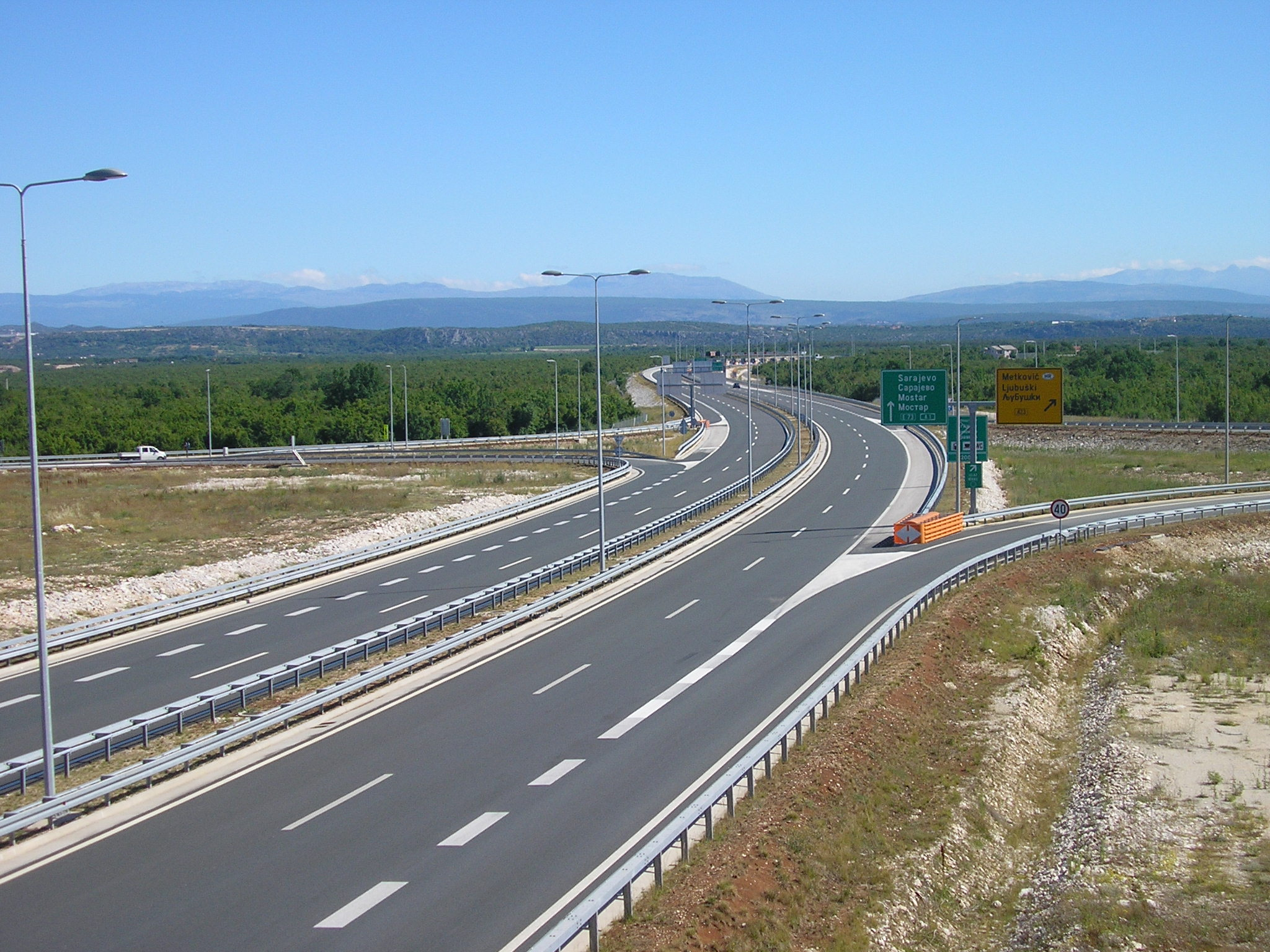 A1 highway, exit Bijača, towards the Zvirovići interchange